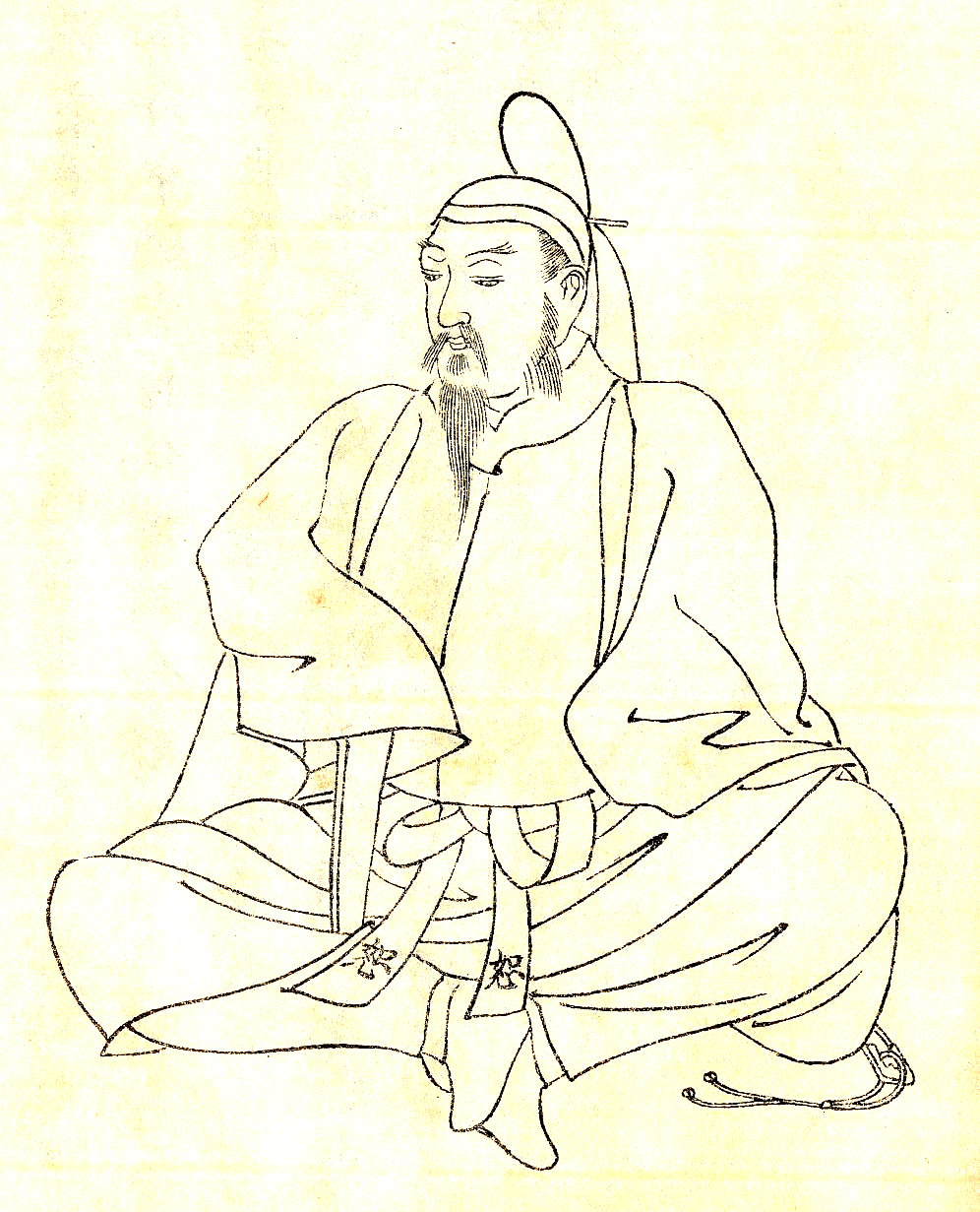 Fujiwara no Kurajimaro(藤原蔵下麻呂) was a Japanese politician and court noble in Nara period.